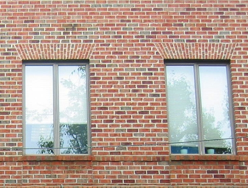 Windows of a brick building in Washington DC.